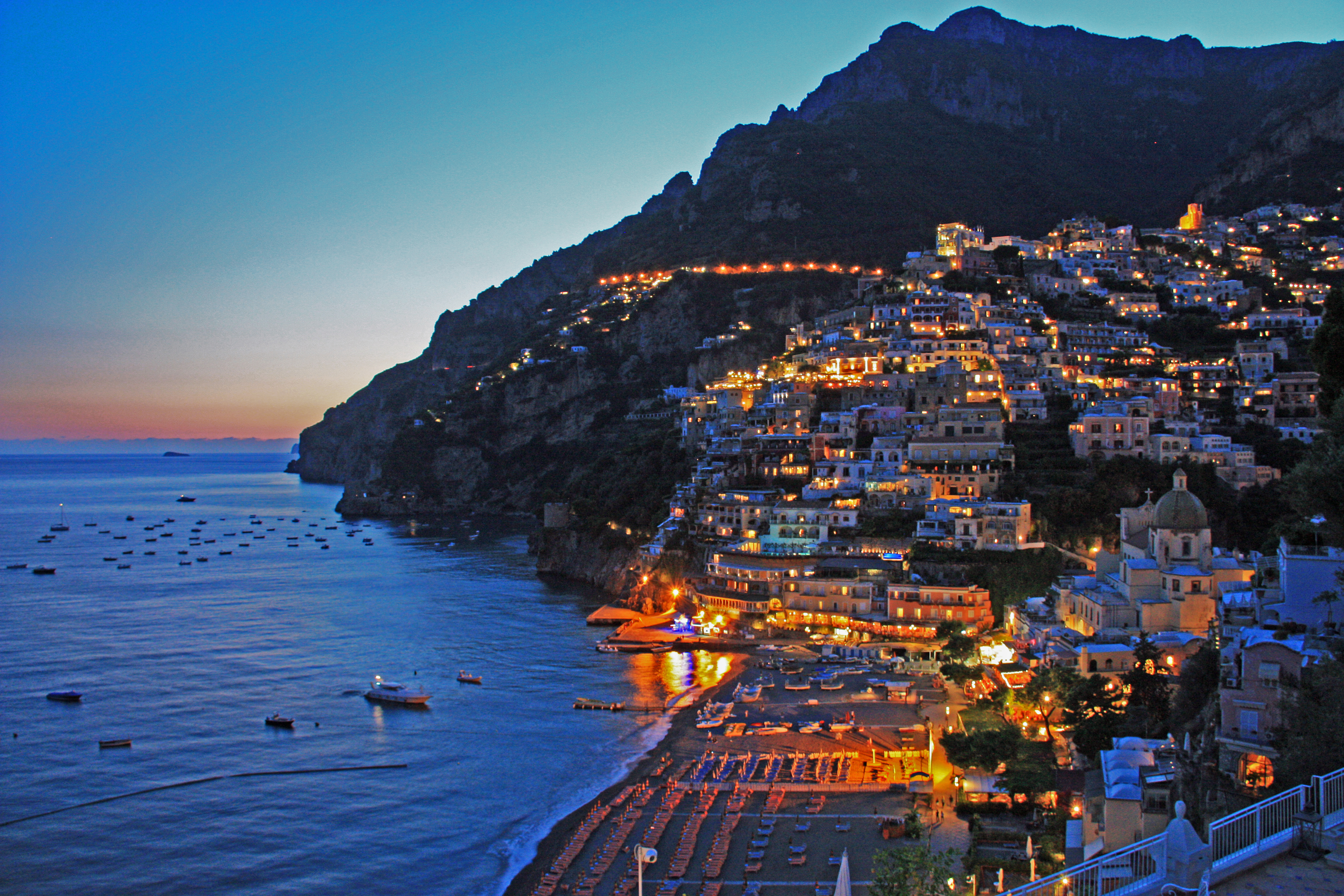 Positano sunset taken from the balcony of Hotel Marincanto